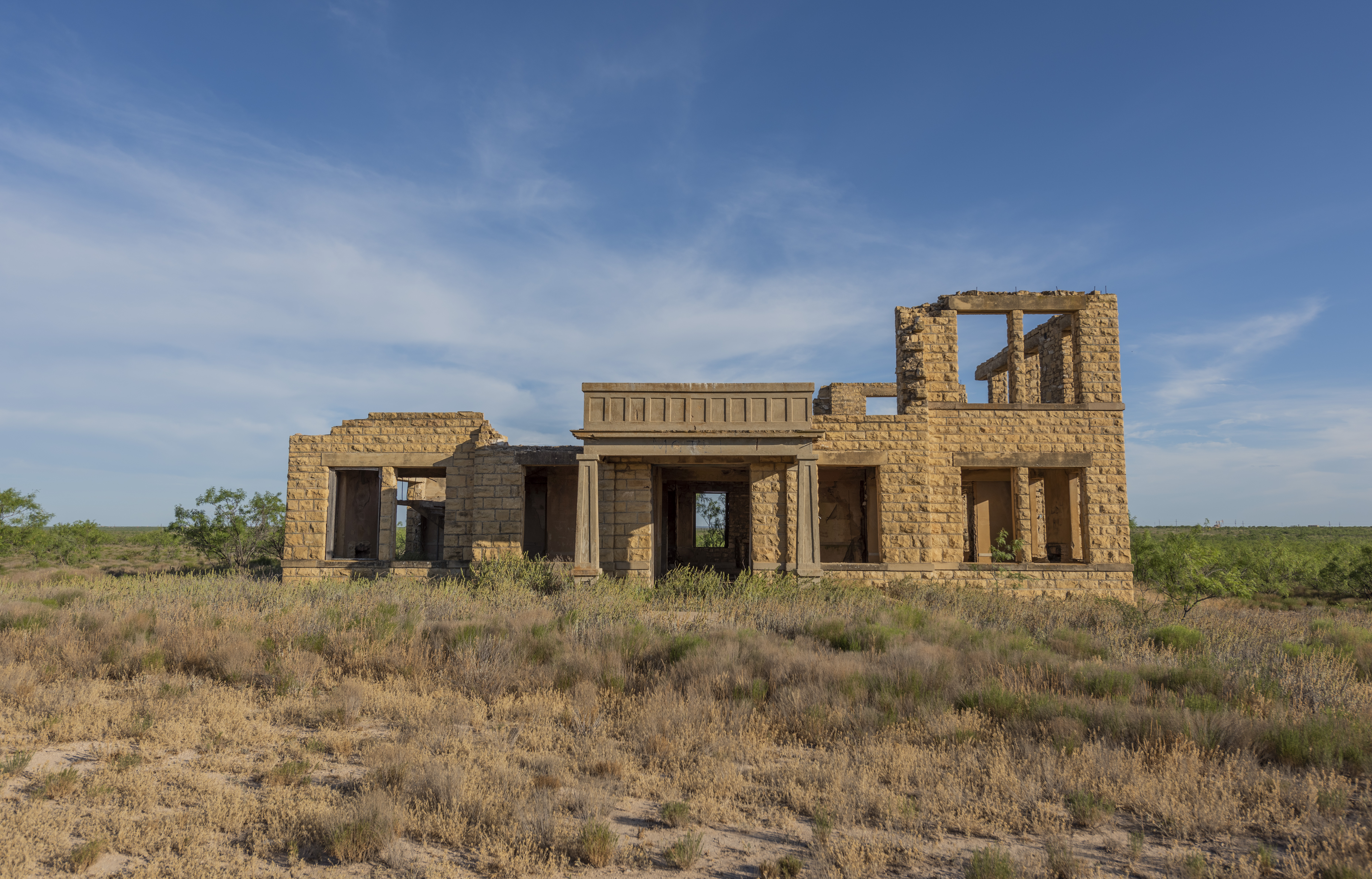 Image of the original Upton County courthouse located in the ghost town of Upland, Texas. Taken in May 2020.